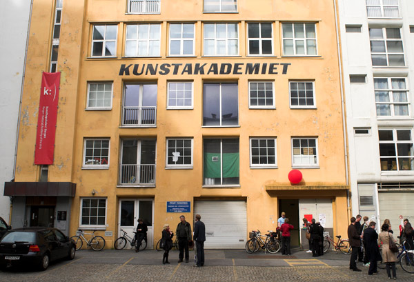 Bergen National Academy of the Arts - Deptartment of Fine Arts - Nordnes